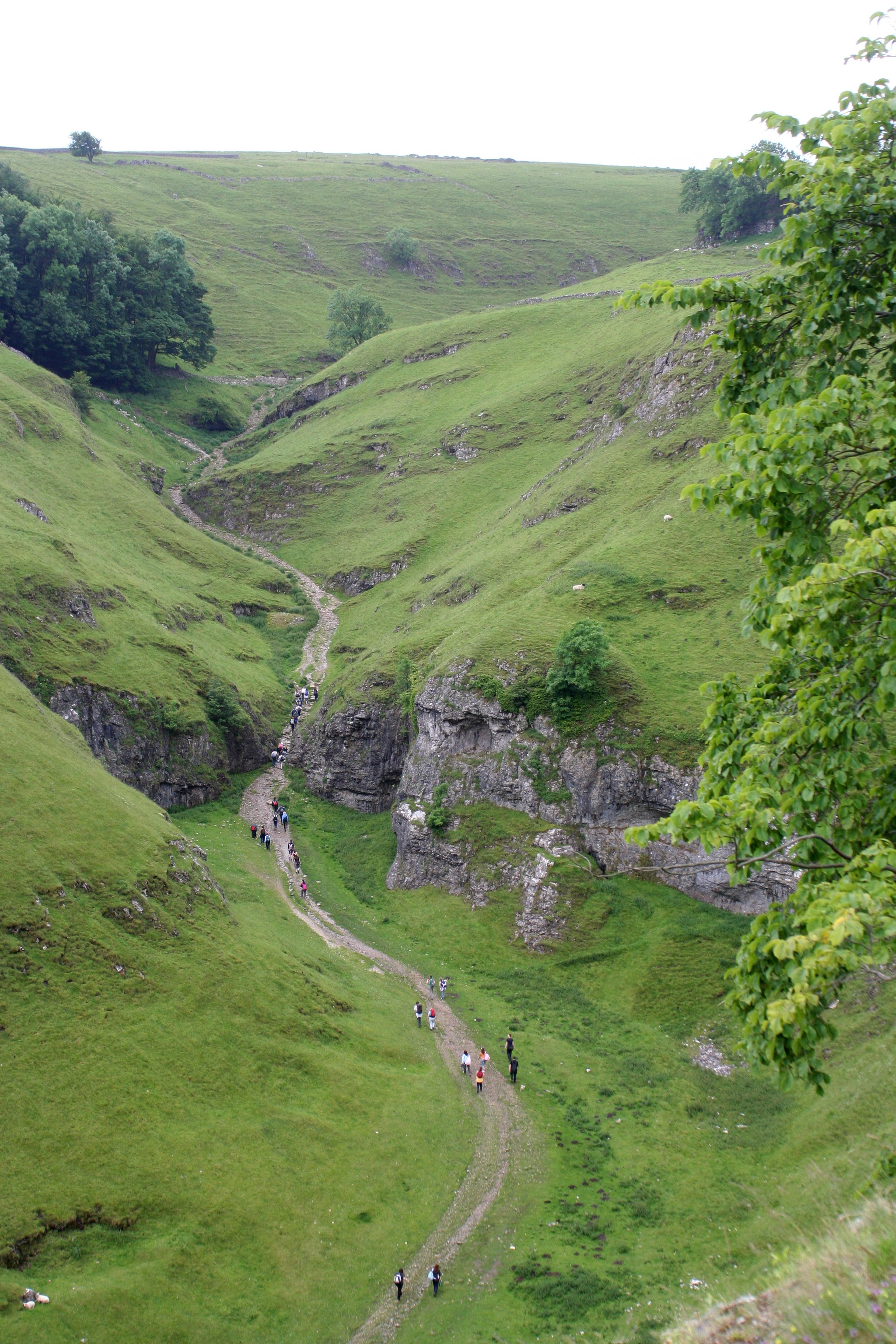 Dale behind Peveril Castle (south of castle).